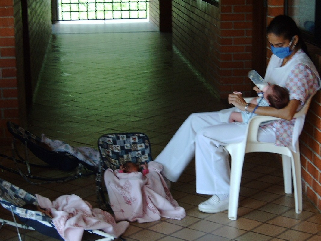 Orphanage in Colombia, Nurse is feeding one child while taking care of two others